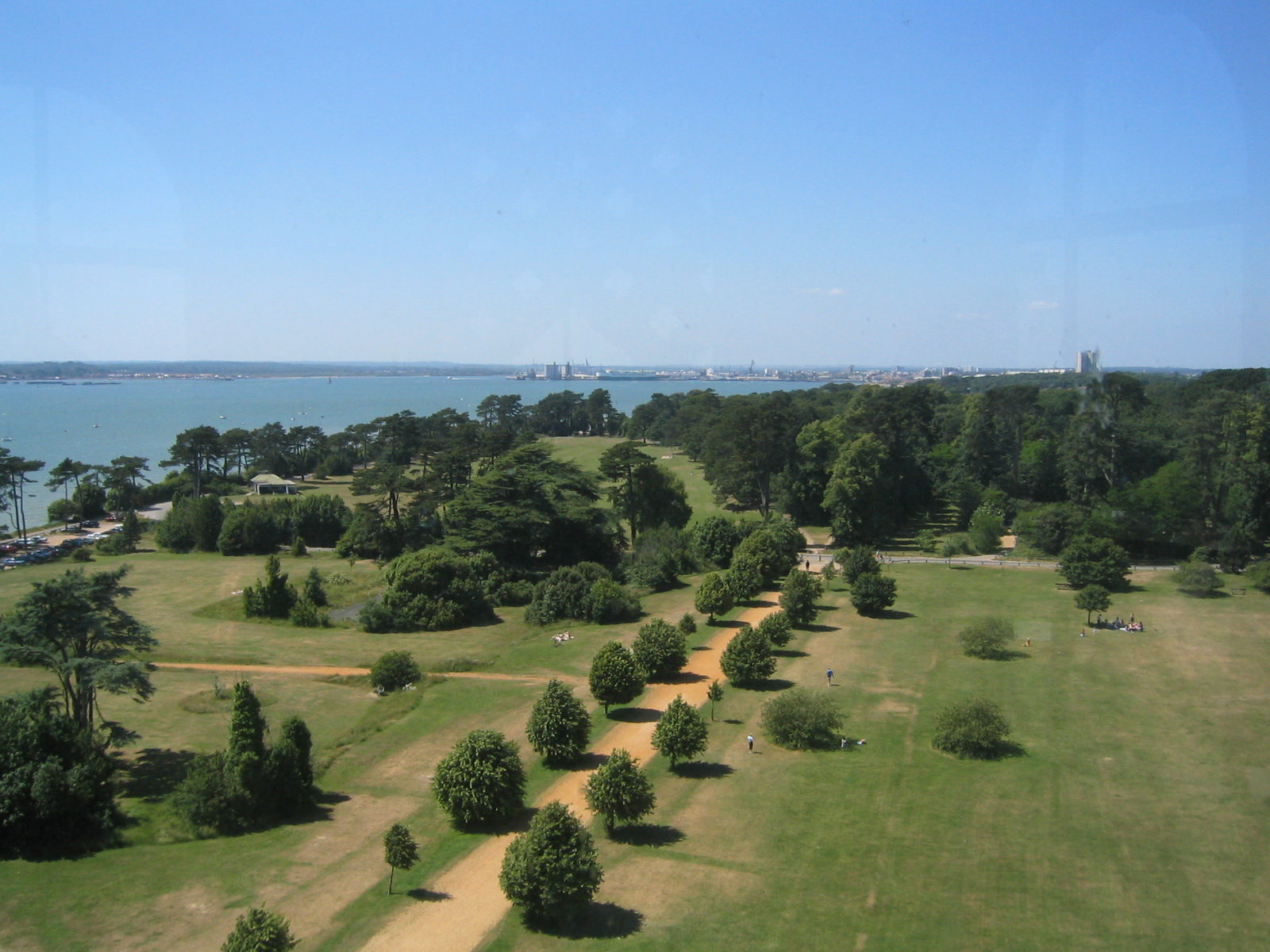 View from Netley Hospital chapel tower, in the Royal Victoria Country Park, Netley, Hampshire, UK. Looking north-west across the park, up Southampton Water, towards Southampton. Photo taken by me 2003-06-20.